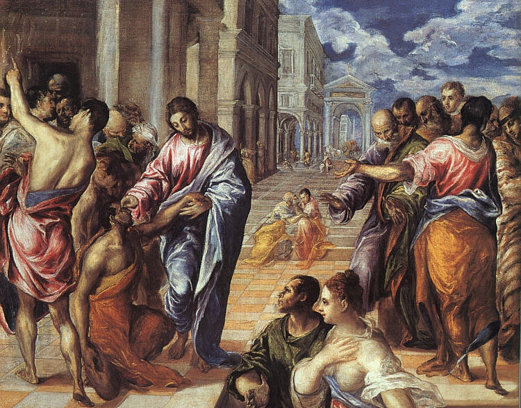 Christ Healing the Blind (1570)